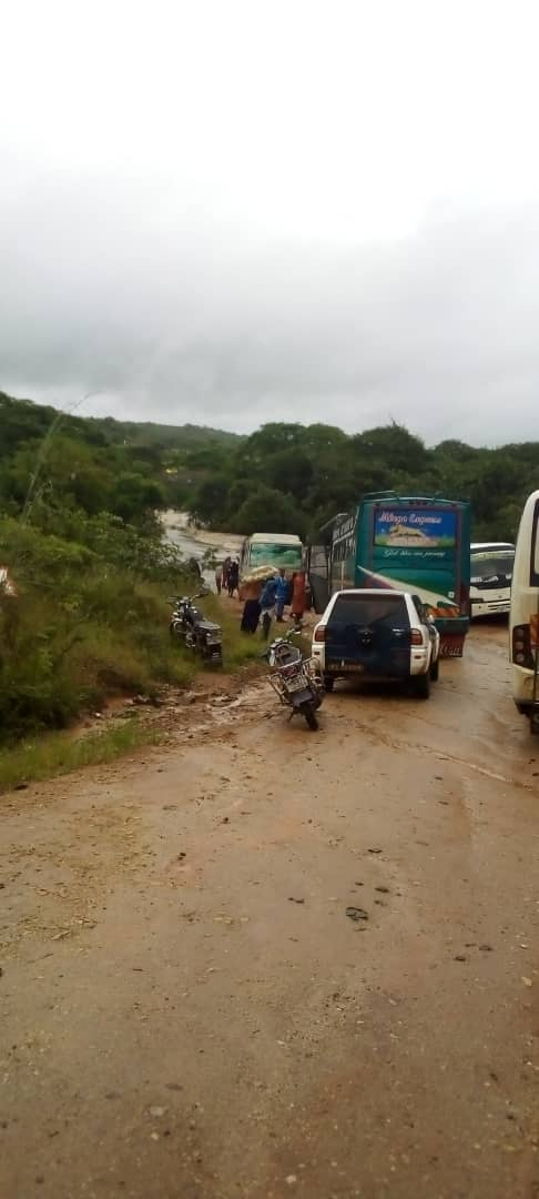 River Rupa - Makongorosi Chunya Road in Tanzania, there is a breakdown, the bridge is broken down and forms of transport must wait for a time to leave the water to flow This is an image with the theme "Africa on the Move or Transport" from: Tanzania